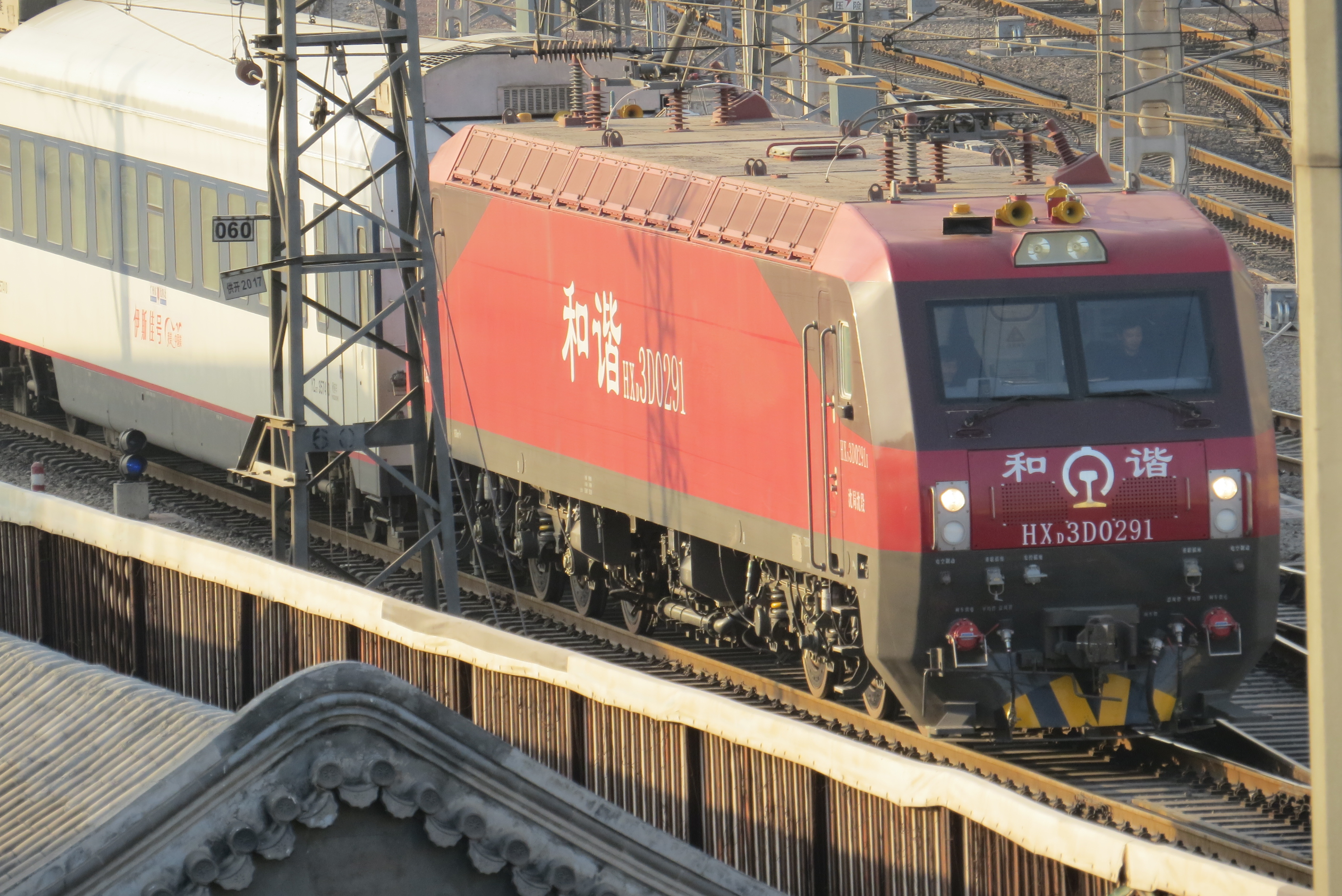 Z11 to Shenyang. Spotted from Dongbianmen.